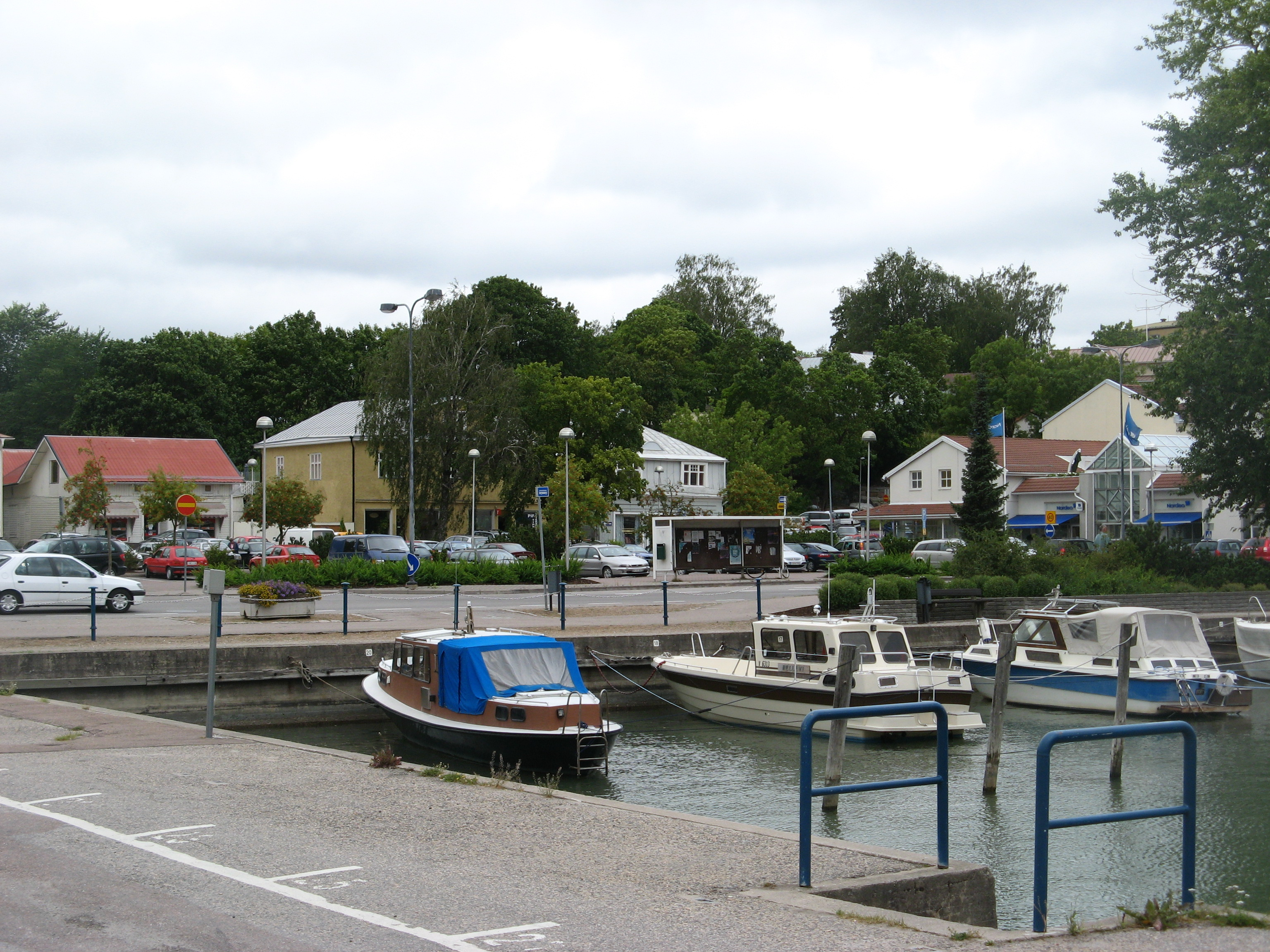 The centre of Pargas seen from the market square, summer 2008.